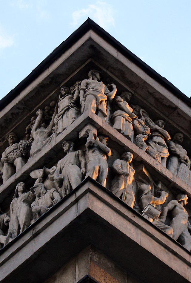 Lenin Library in Moscow, 1928-1941